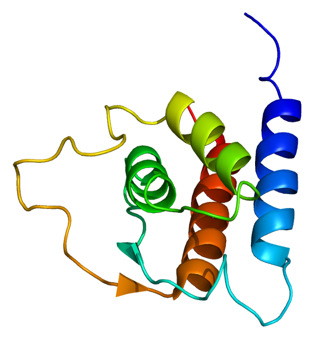 Structure of the IL13 protein. Based on PyMOL rendering of PDB 1ga3.